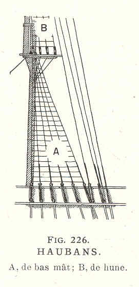 a, de bas mar; b, de hune Subject: Masts and rigging Tag: Vessels